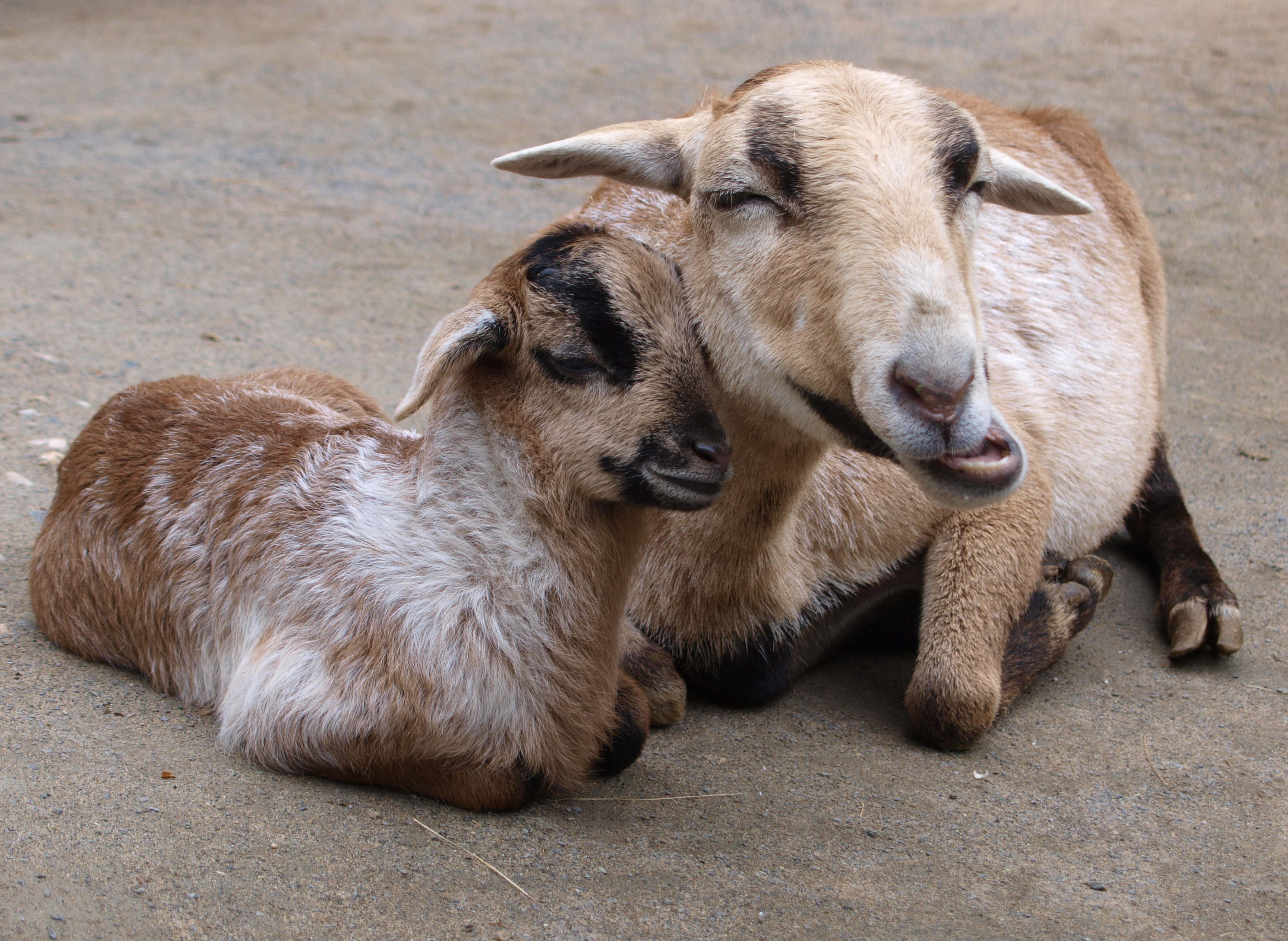 ruminating goat